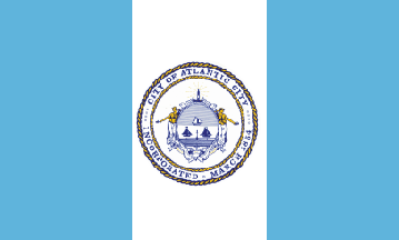 This is the official flag of Atlantic City, New Jersey.